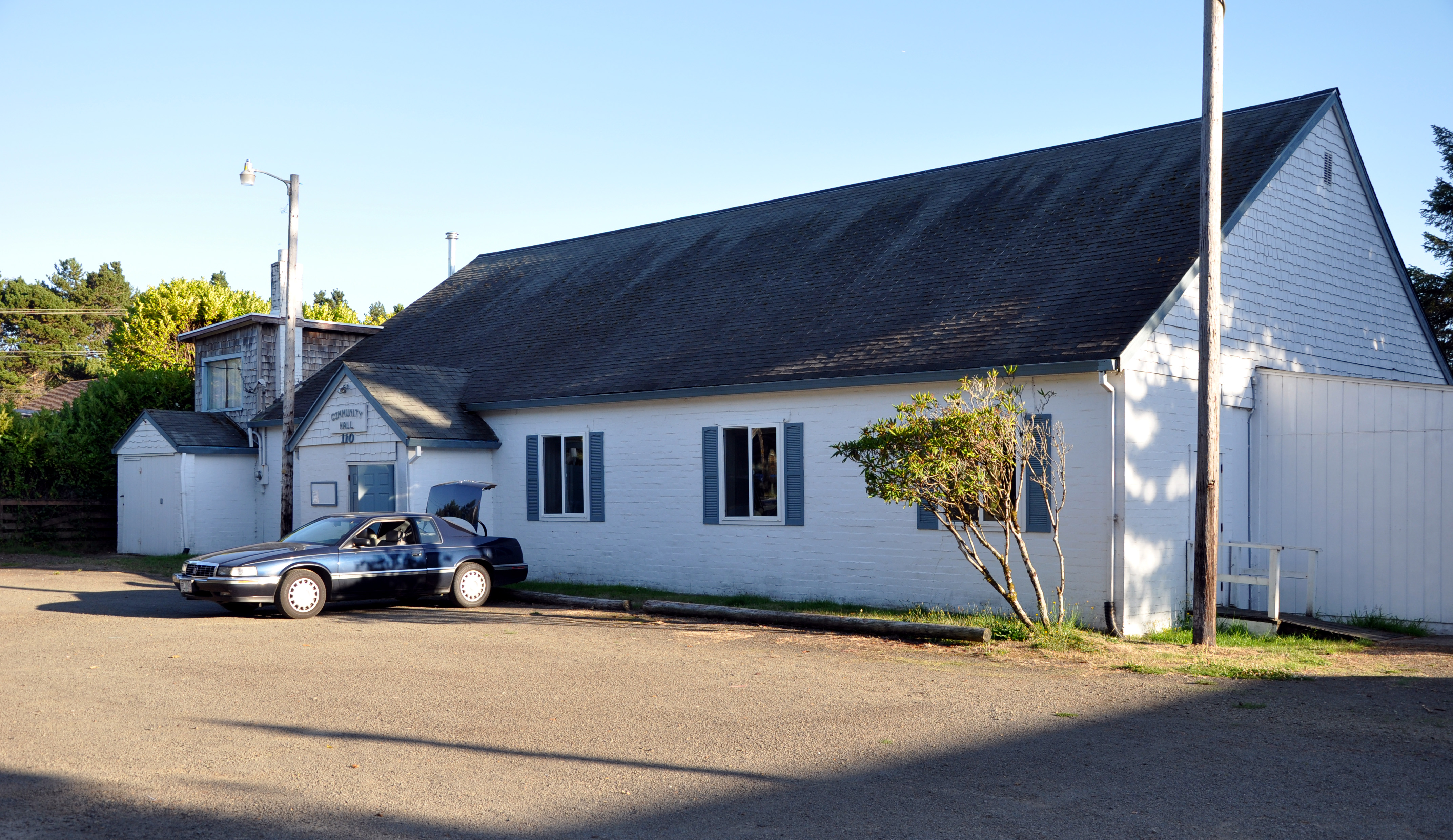 Community center in Gleneden Beach, Oregon, in the United States. View is to the southeast from Azalea Street.